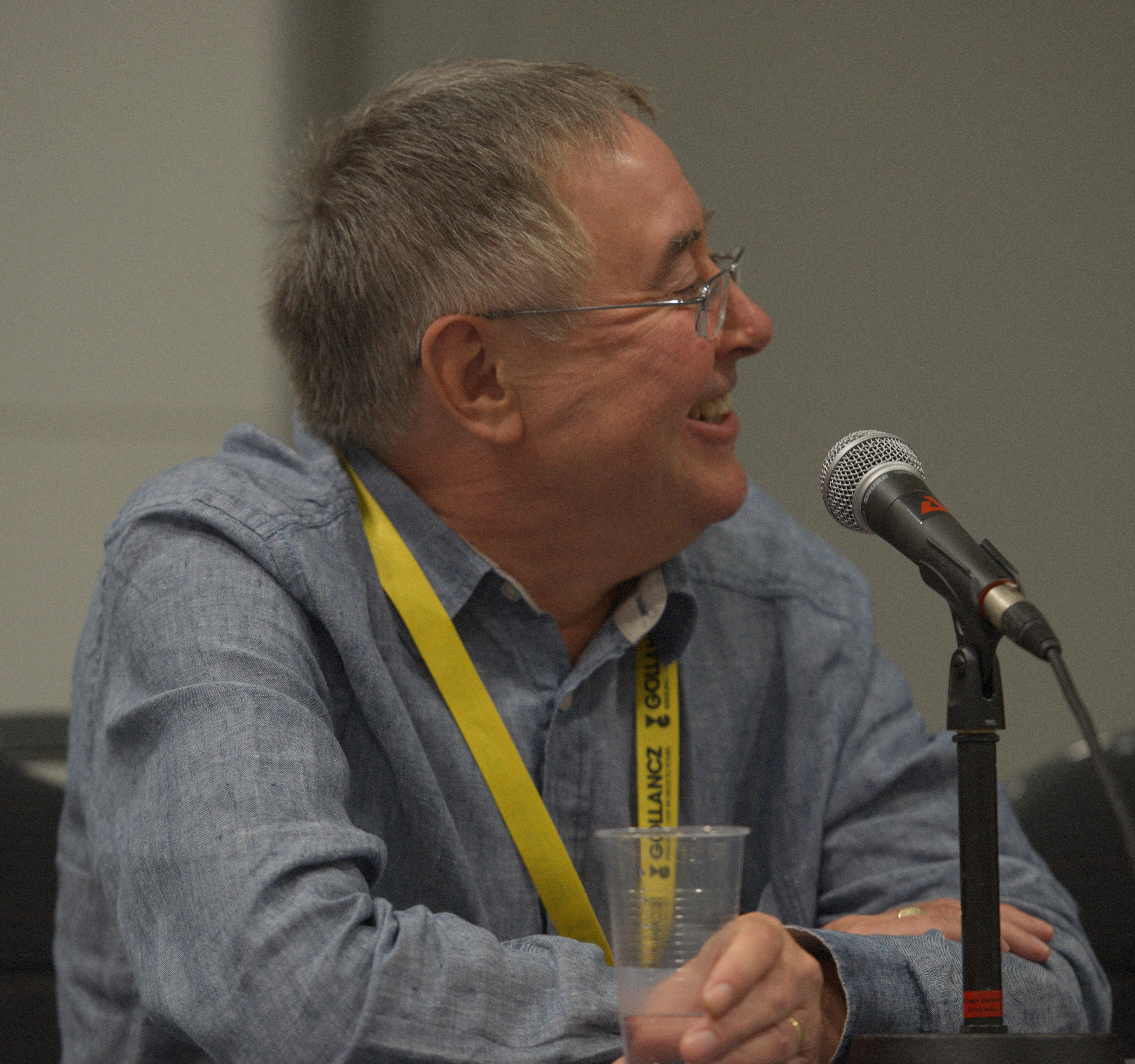 Editor and critic Malcolm Edwards in a panel discussion about The Encyclopedia of Science Fiction at Loncon, Worldcon 2014.